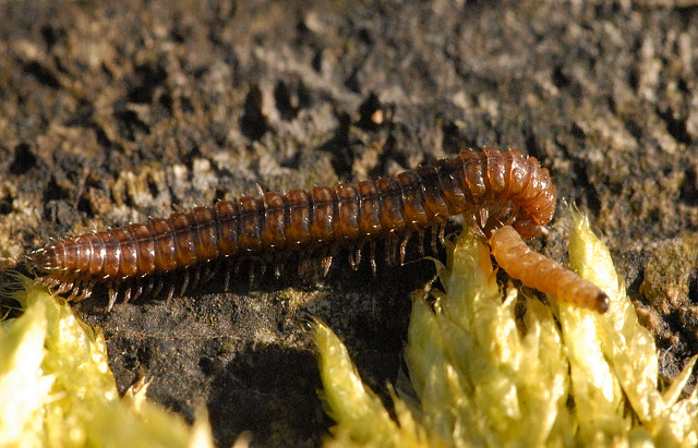 Nanogona polydesmoides from Commanster, Belgian High Ardennes .